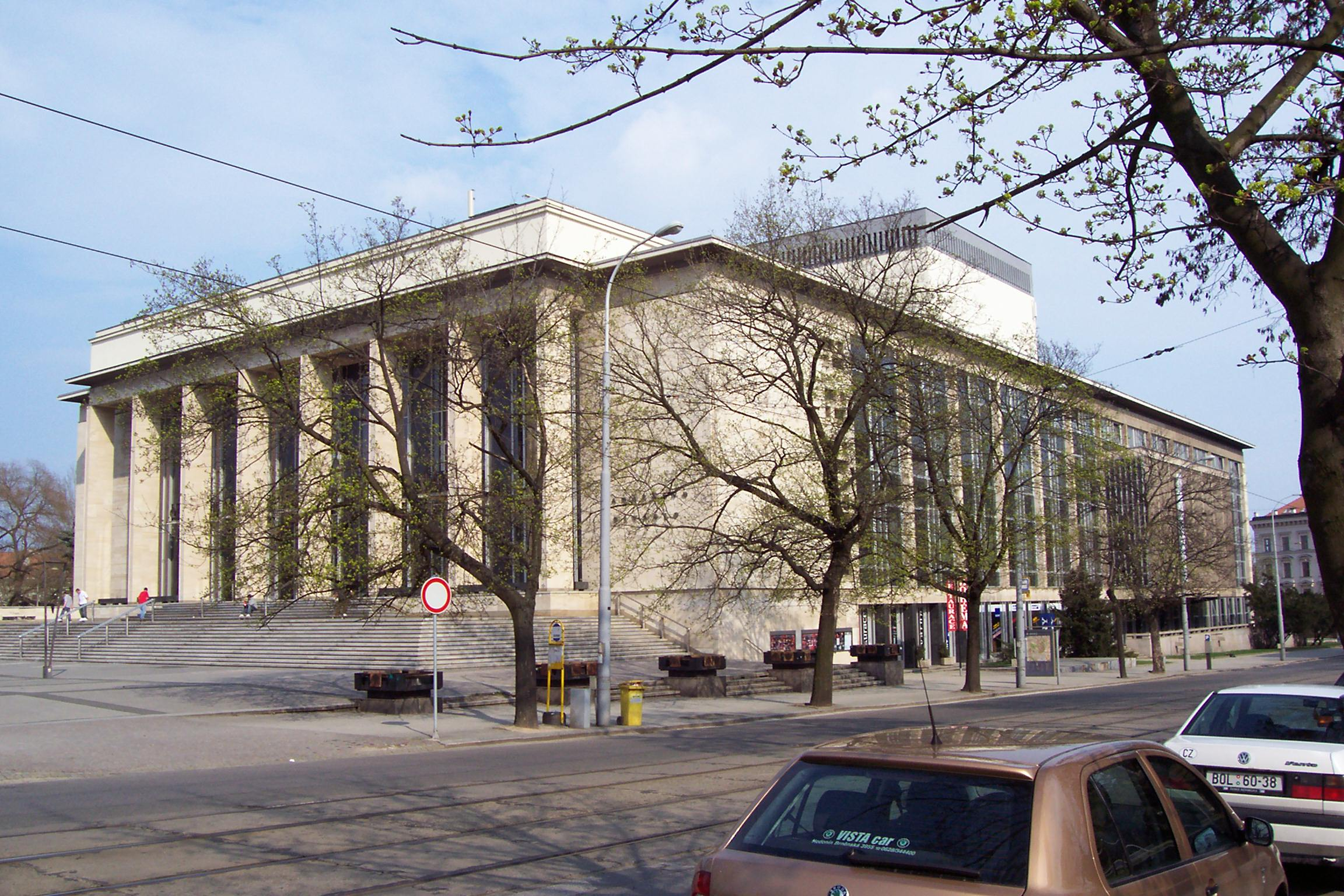 Janáček Theatre in Brno